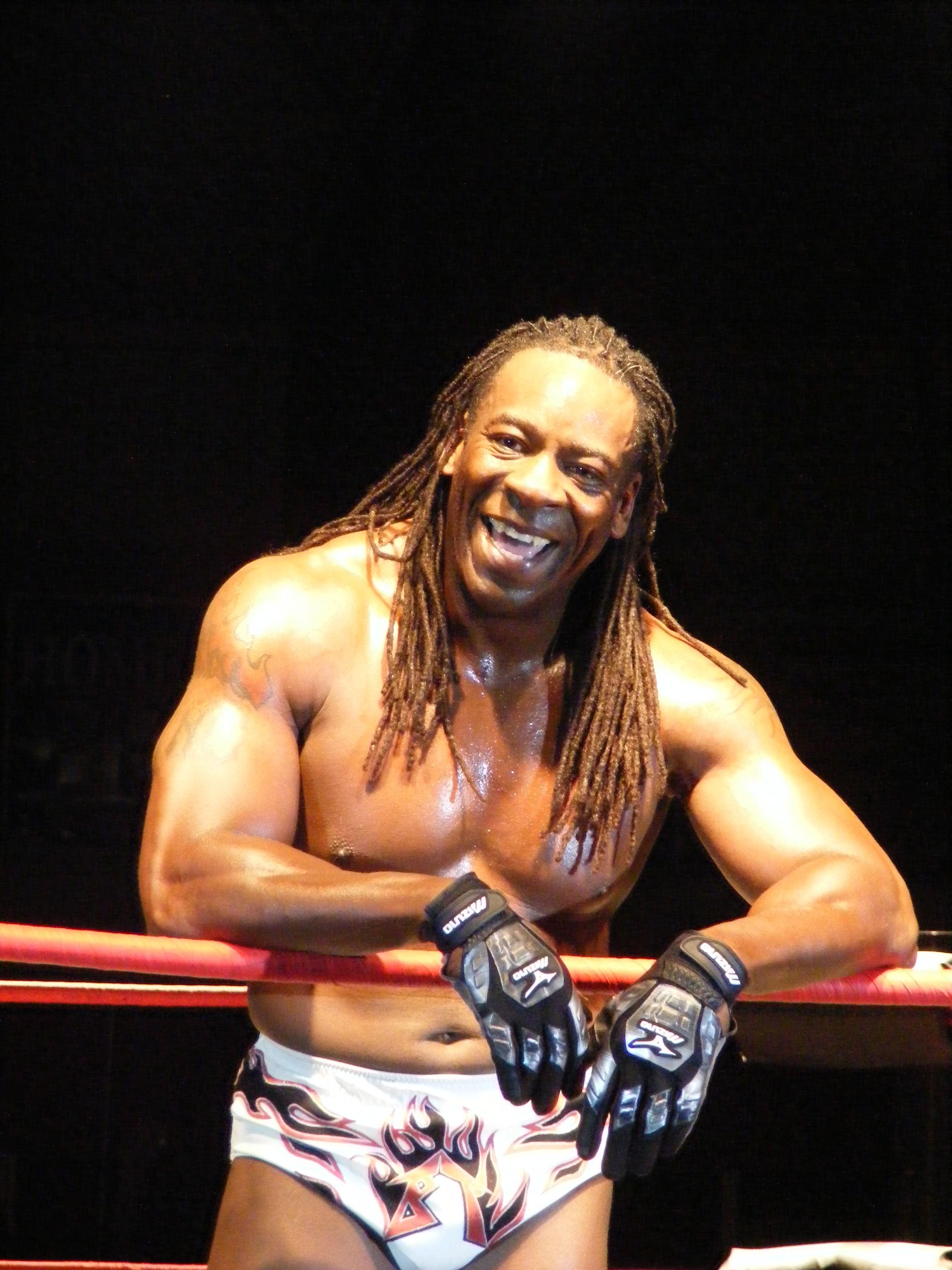 Booker T at a TNA live event.